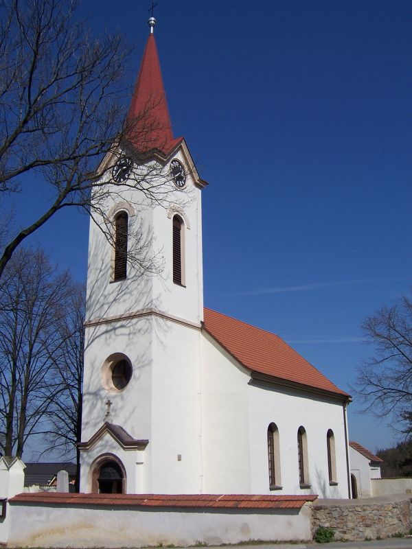 Prague, Dubeč, church